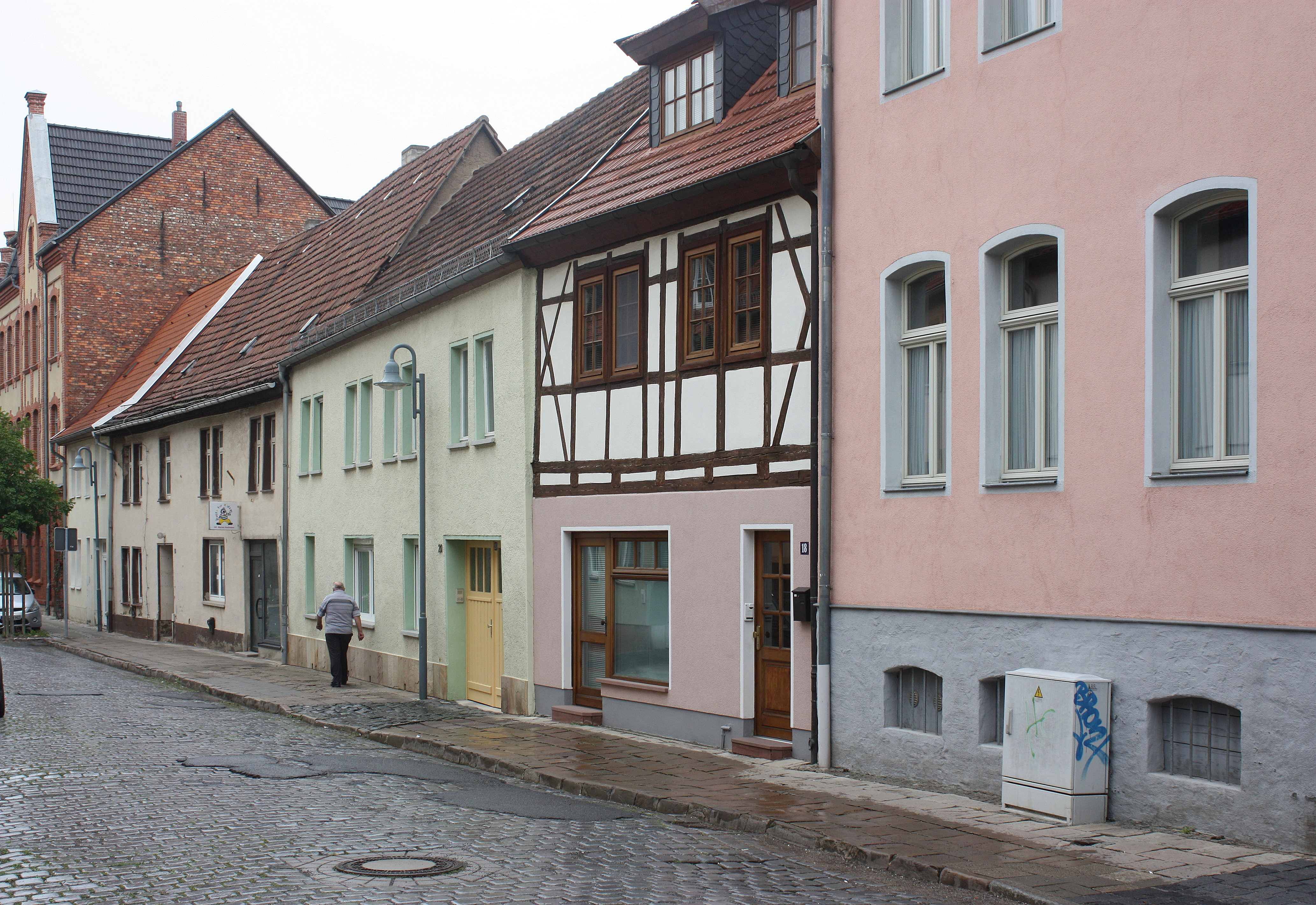 Sangerhausen, a raw of houses at the Jacobstraße This is a photograph of an architectural monument. 84108